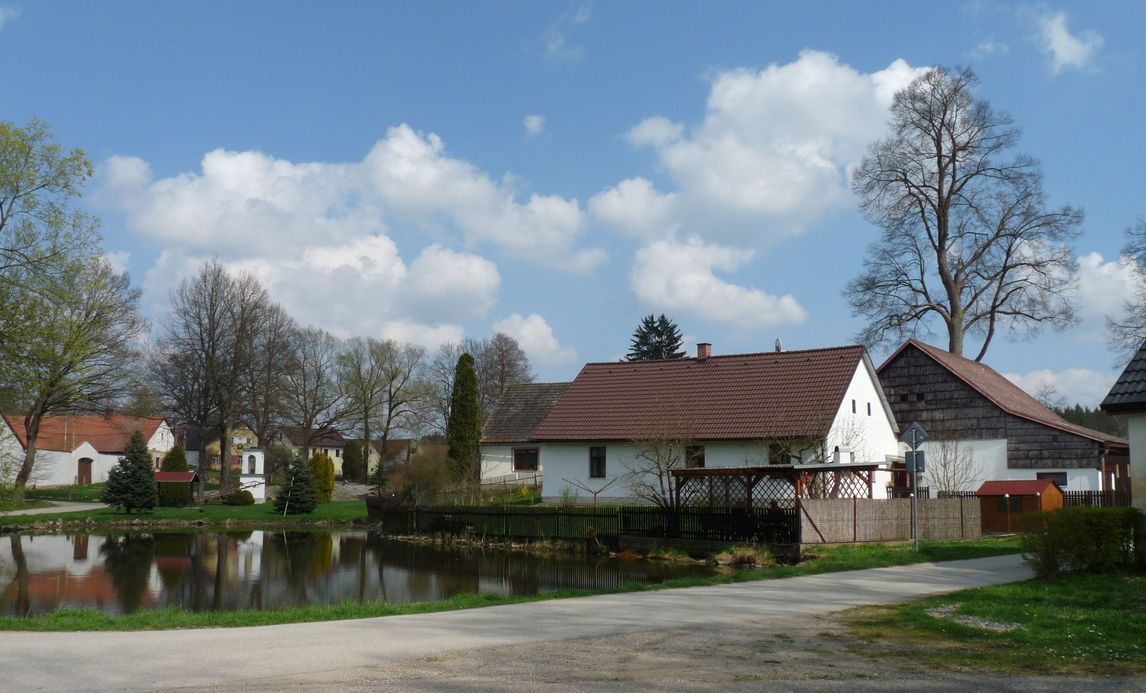 Houses in the centre of the village of Nekrasín, Jindřichův Hradec District, South Bohemia, Czech Republic.